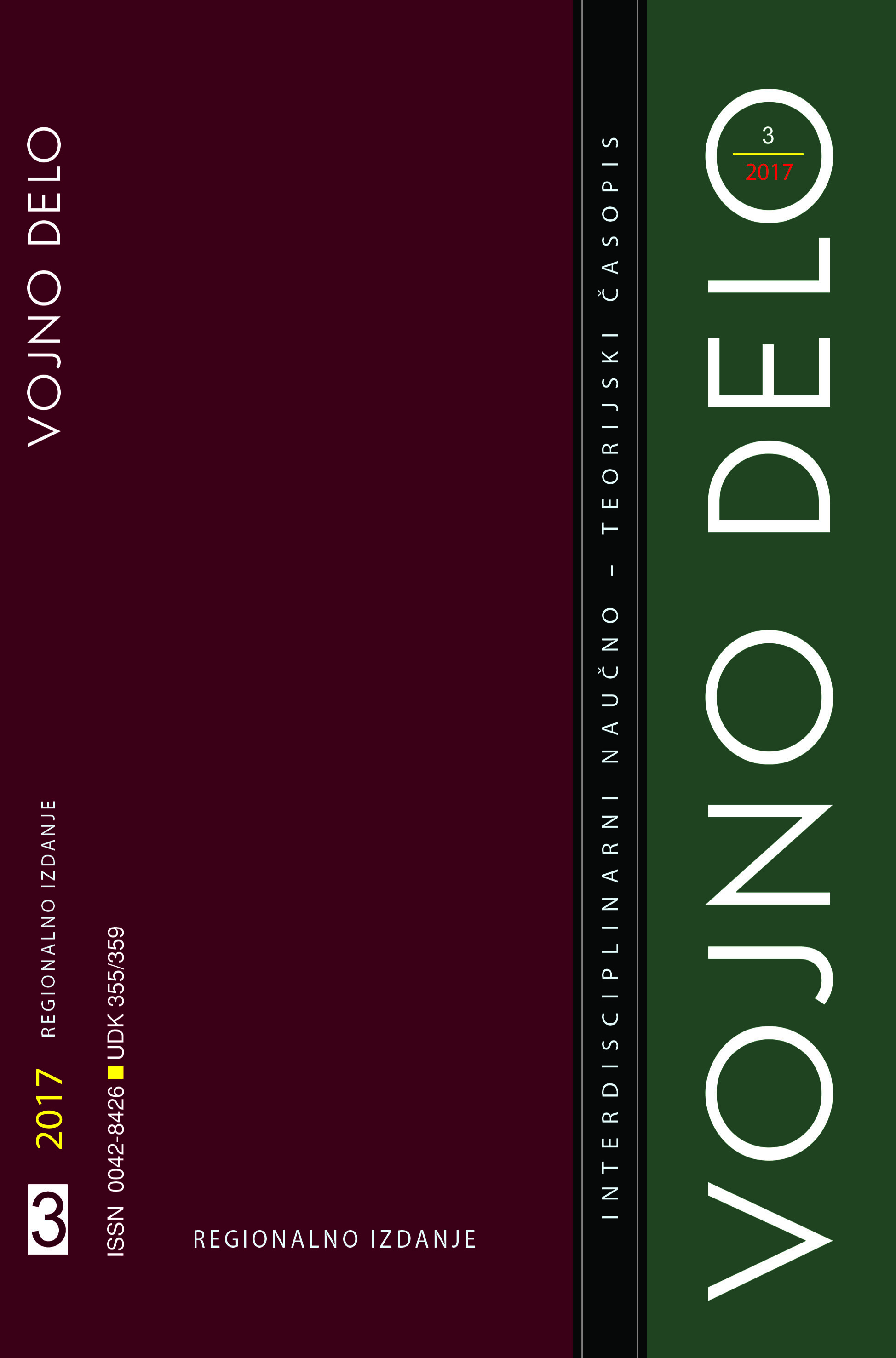 Cover of Journal Vojno delo, Media Center "Defense", Belgrade, Serbia, 2017.